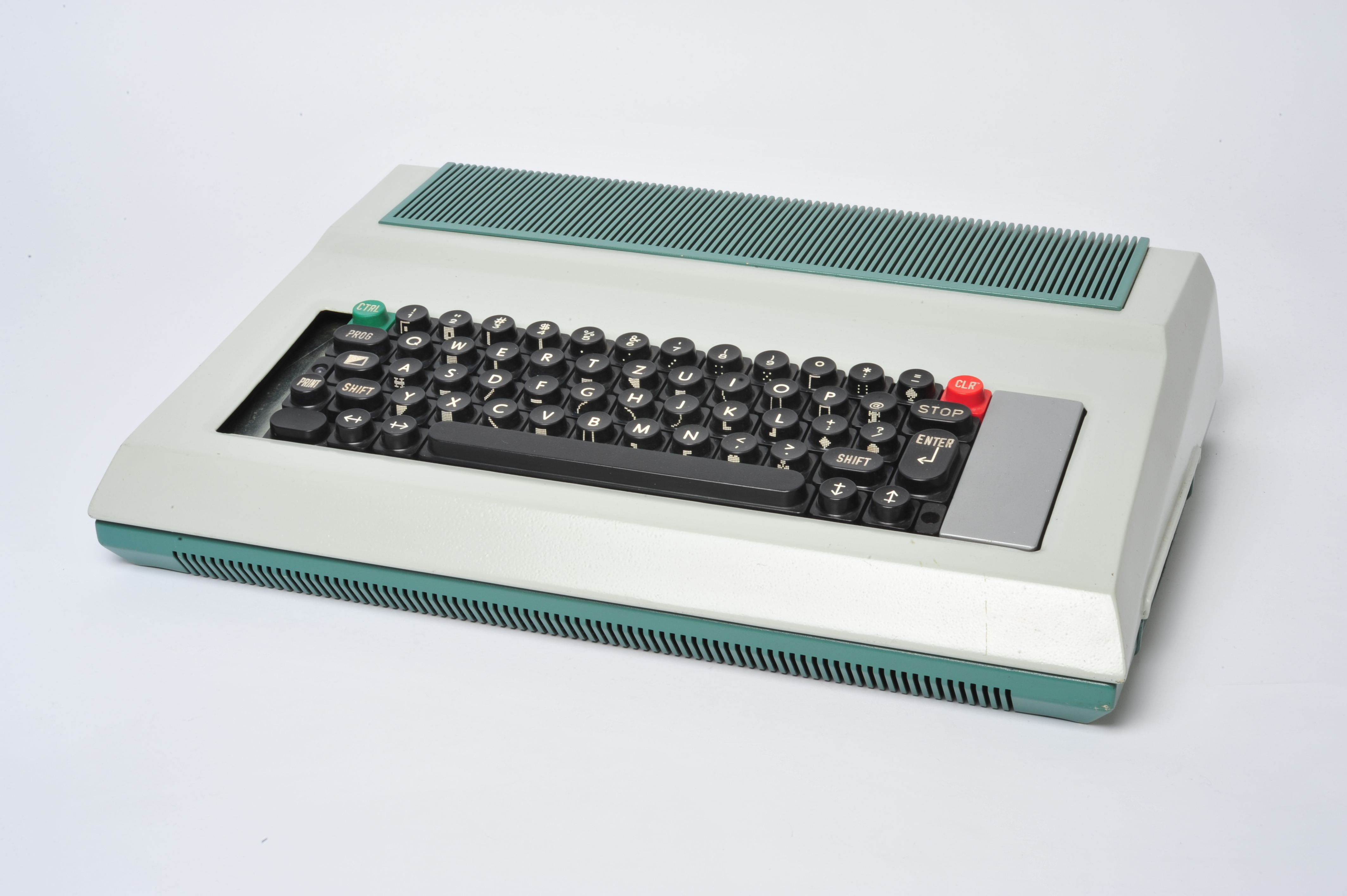 Robotron Z9001 computer prototype